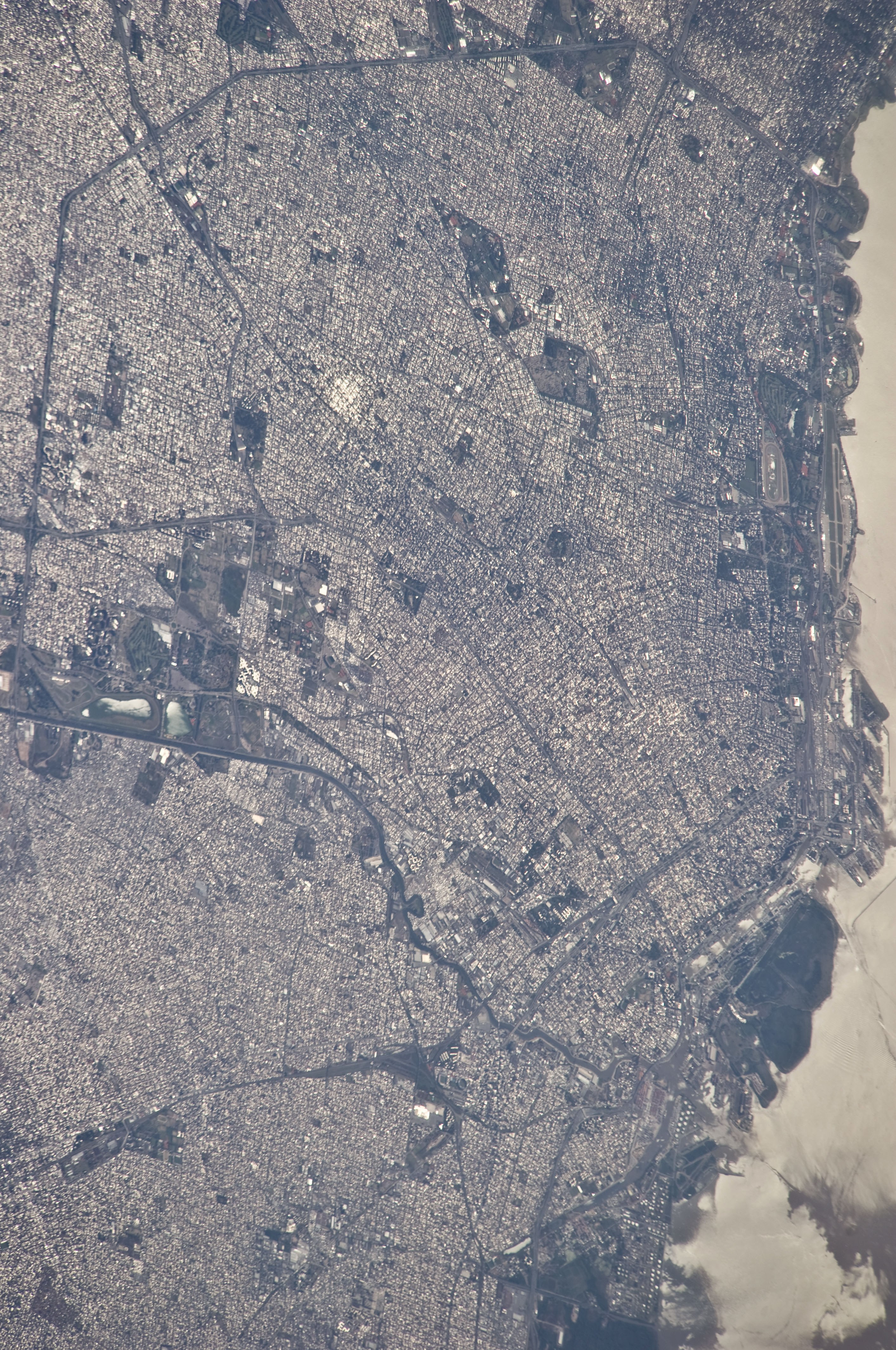 Astronaut Photo of Buenos Aires, Argentina taken from the International Space Station (ISS) during Expedition 23 on May 7, 2010.